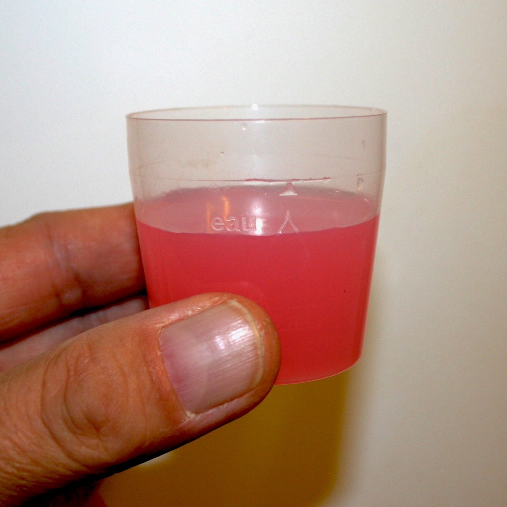 Mouthwash